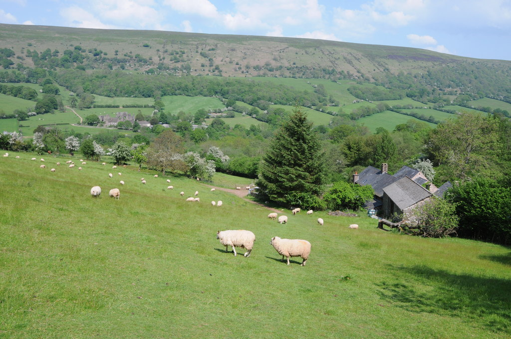 Cwm Bwchel Farmhouse, Llanthony Priory, Monmouthshire, Wales